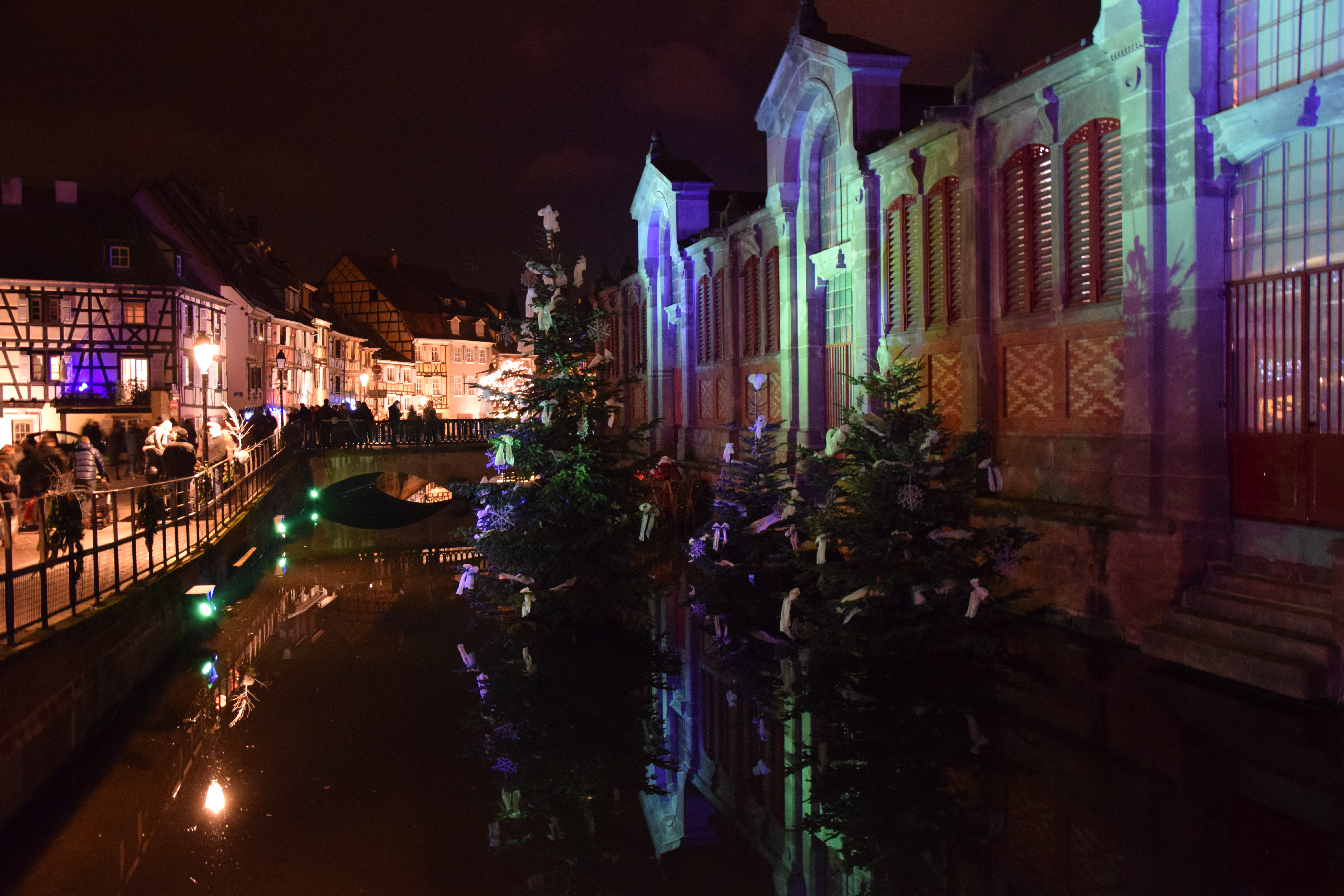 The covered market in the old town of Colmar, Alsace, France (by night)